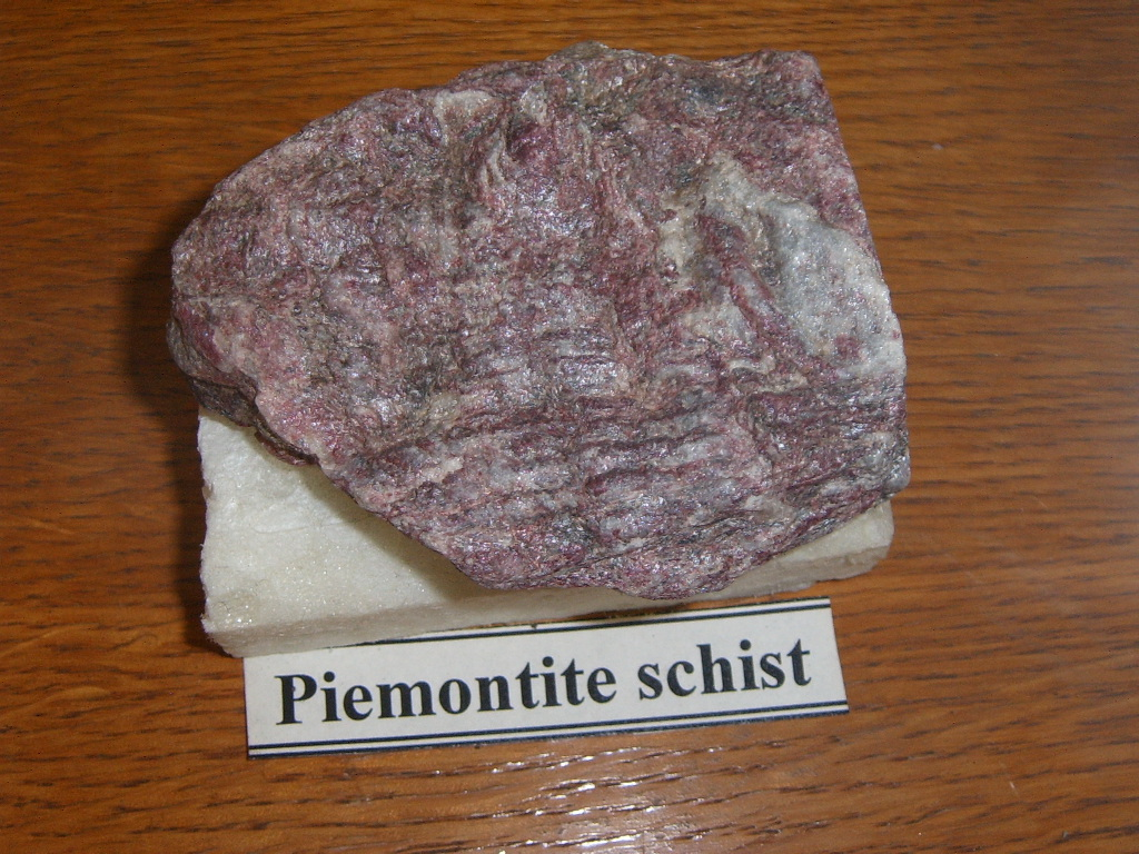 Piemontite schist, Museum of rocks and minerals, Faculty of Mining and Geology, Belgrade